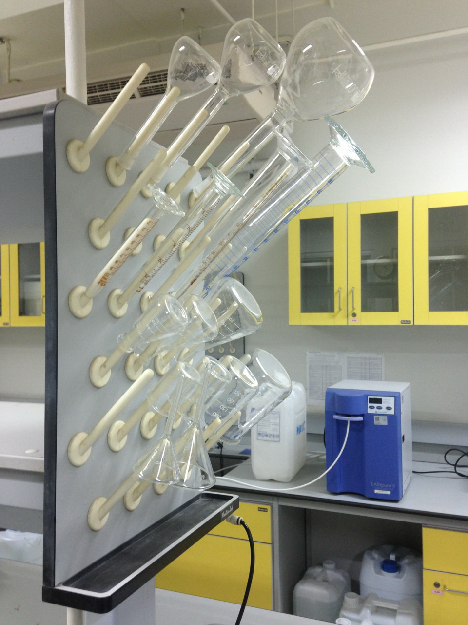 Lab drying rack in MUIC building with glassware Part 2